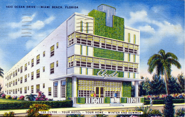 Persistent URL: Local call number: PC2293 Title: "1430 Ocean Drive - Miami Beach, Florida" Date: ca. 1940 Physical descrip: 1 postcard - col. - 9 x 14 cm. Series Title: Repository: 500 S. Bronough St., Tallahassee, FL, 32399-0250 USA, Contact: 850.245.6700